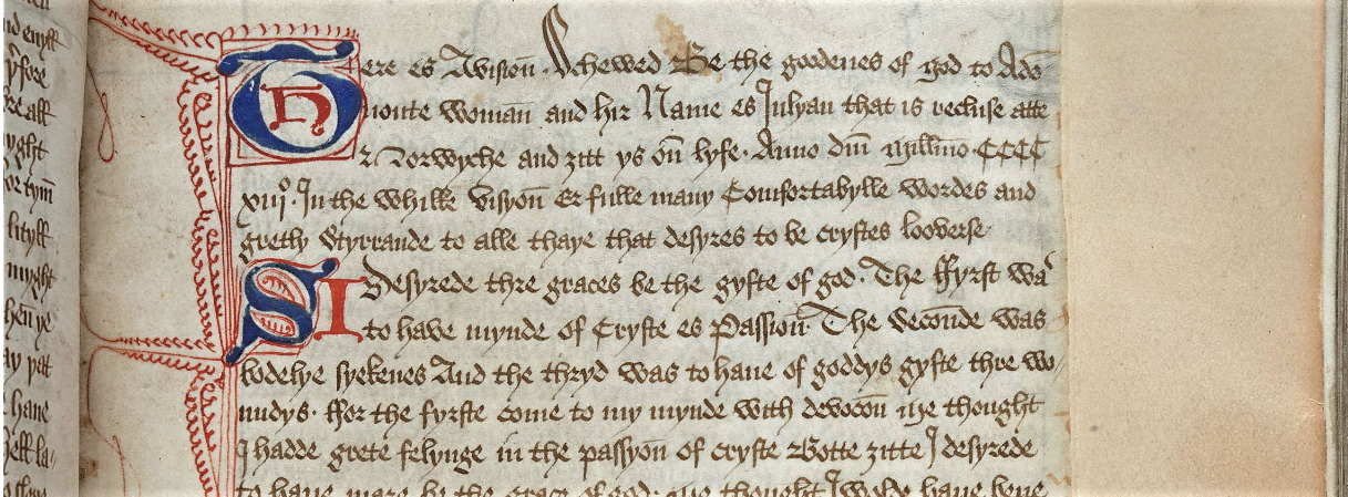 Revelations of Divine Love (Add MS 37790) f. 97r from the British Library Manuscript